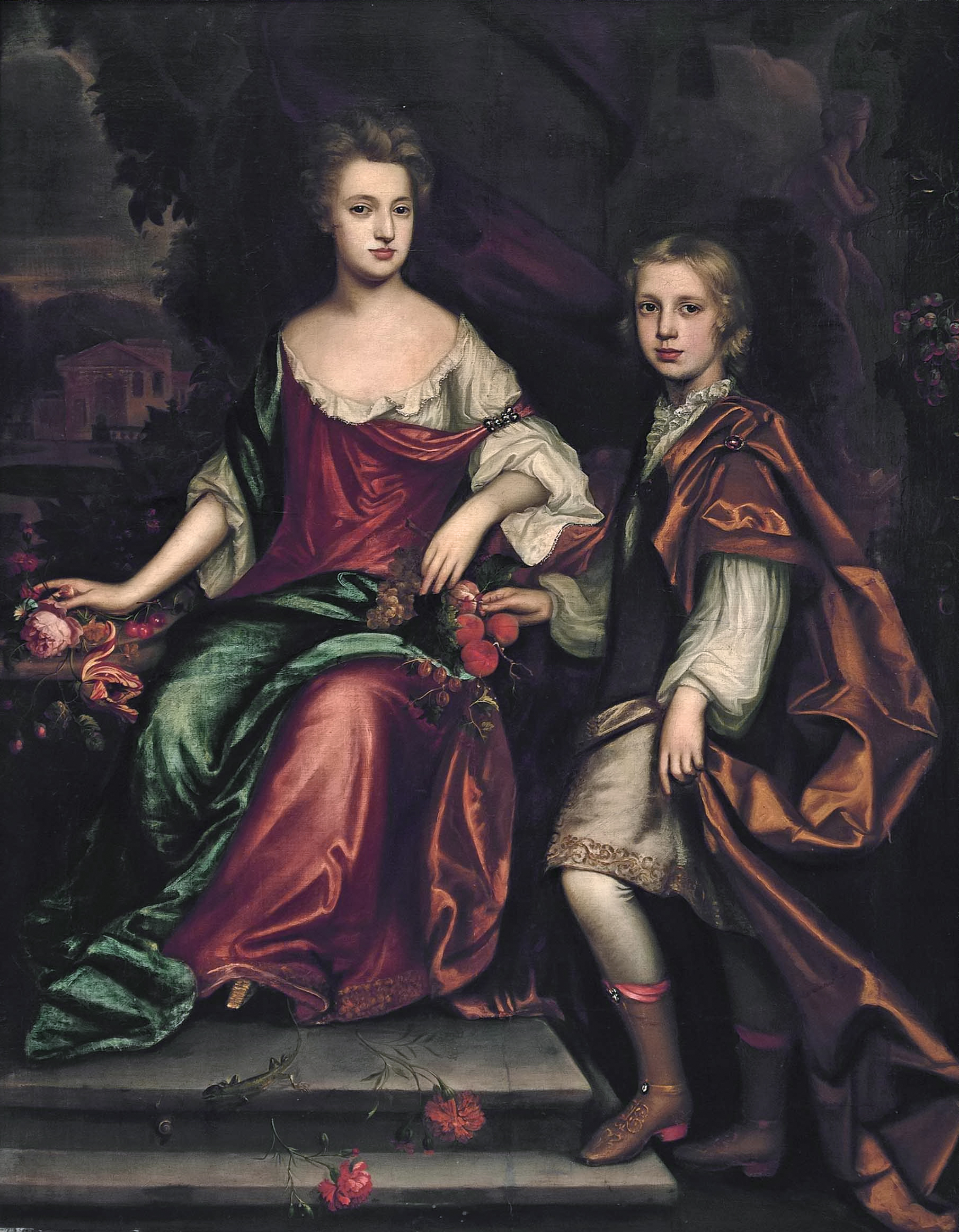 Charles Bertie (1678-1730) and his sister Elizabeth Bertie (1675-1738), later Lady Fitzwalter oil on canvas 164.3 x 129.3 cm